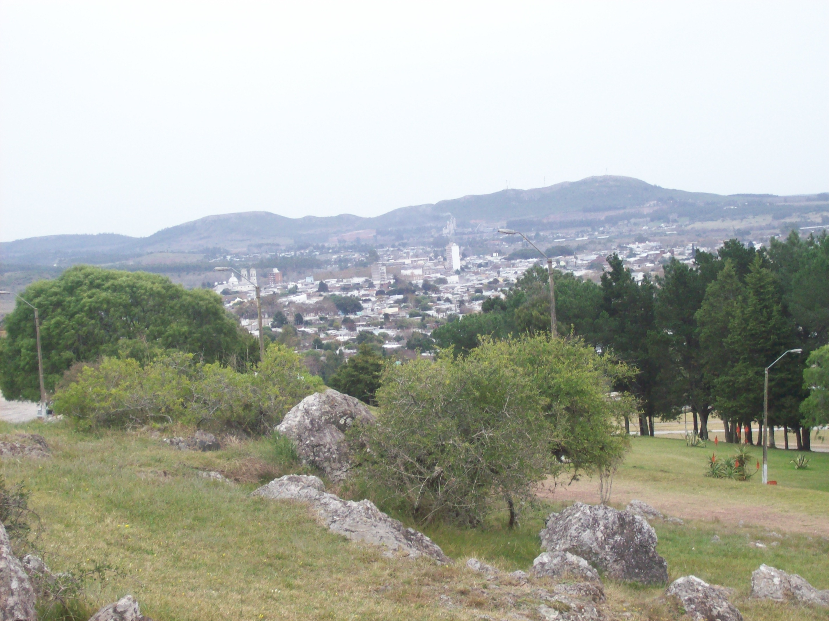 View from Artigas Hill in MInas, Lavalleja, Uruguay.